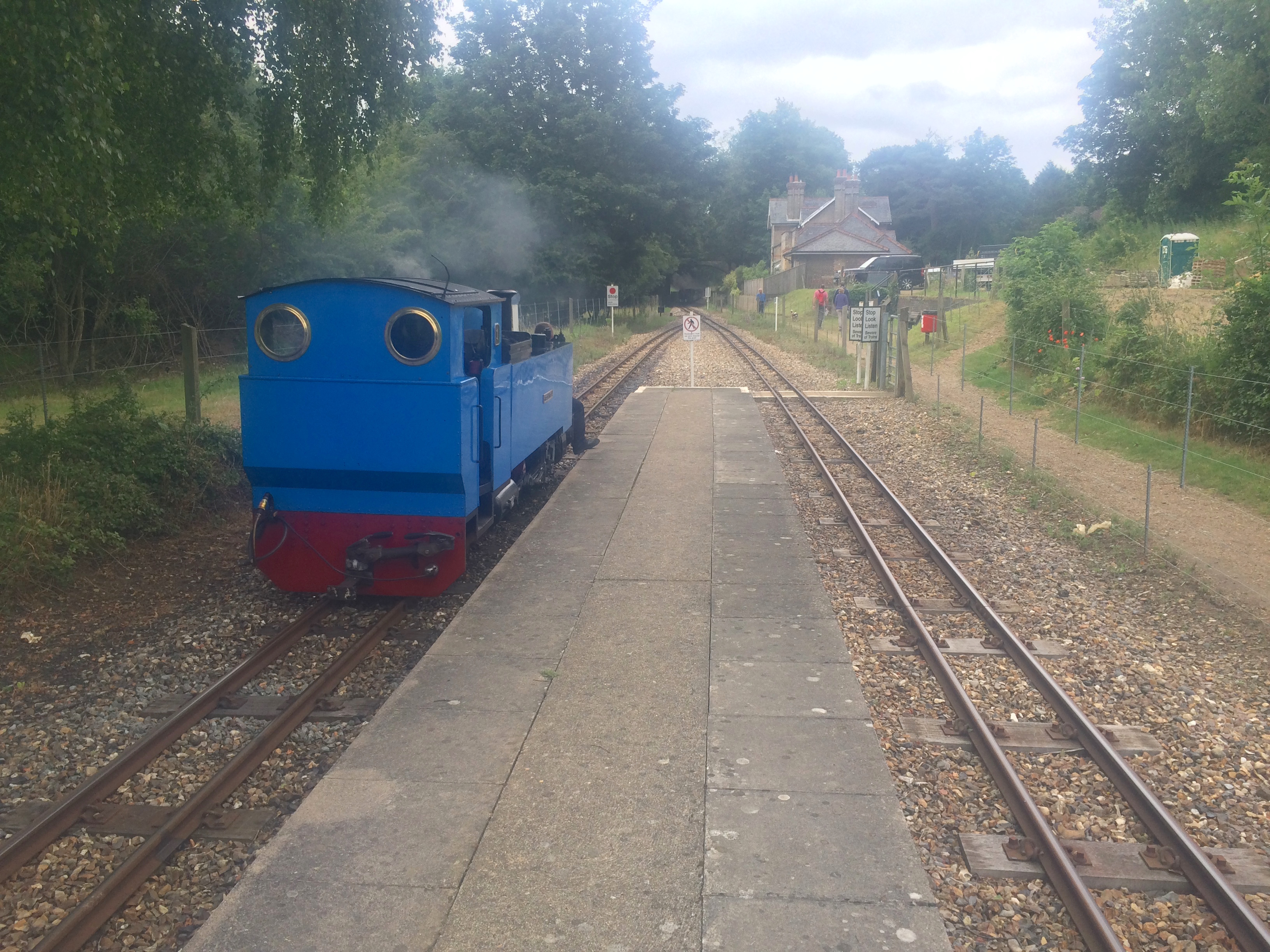 Coltishall railway station in Norfolk. The current narrow gauge platforms are in the foreground. In the distance is the older station building of the former standard gauge station.